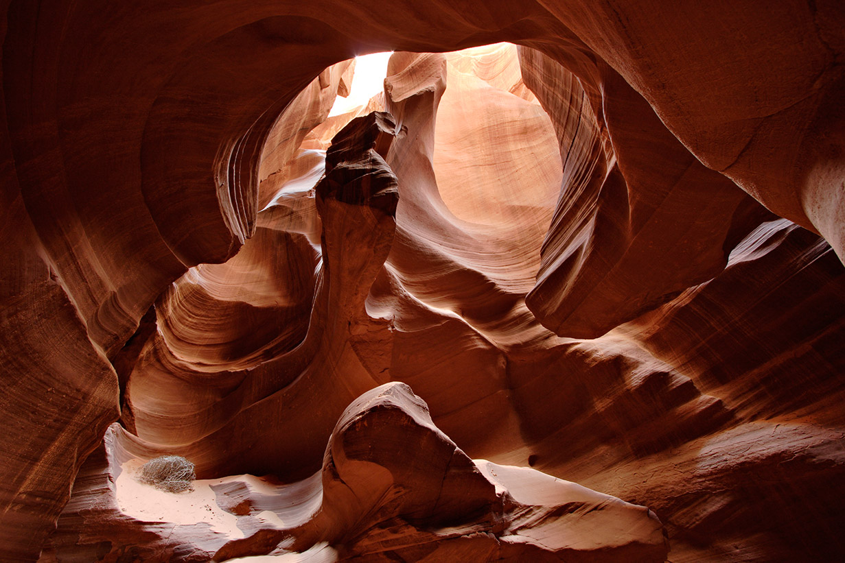 Taken inside Upper Antelope Canyon